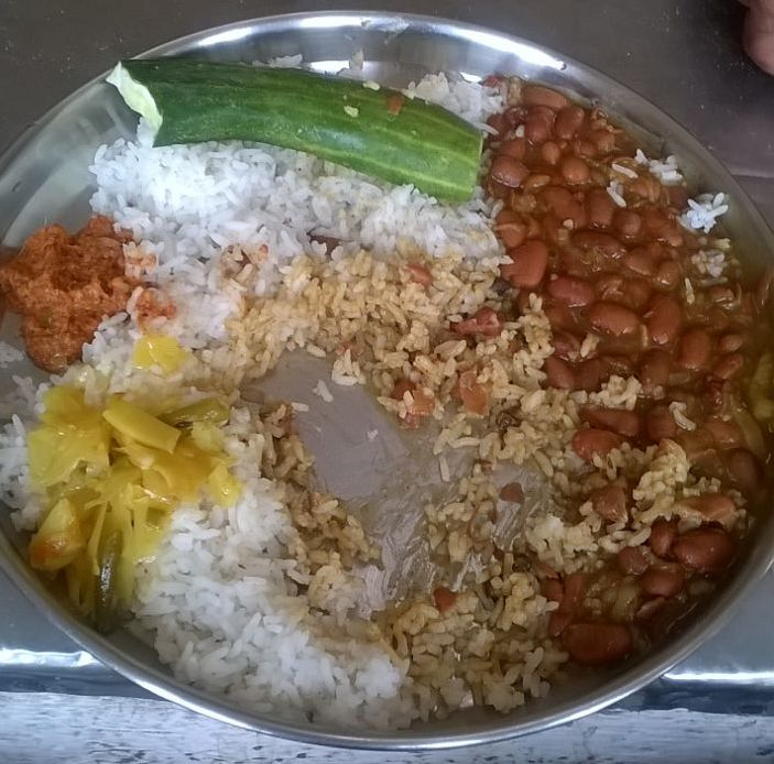 Rajma-Mango Chutni-Cabbage Fried-Cucumber-Plain Rice The Plate is prepared by a Rongmei Naga (North East India)